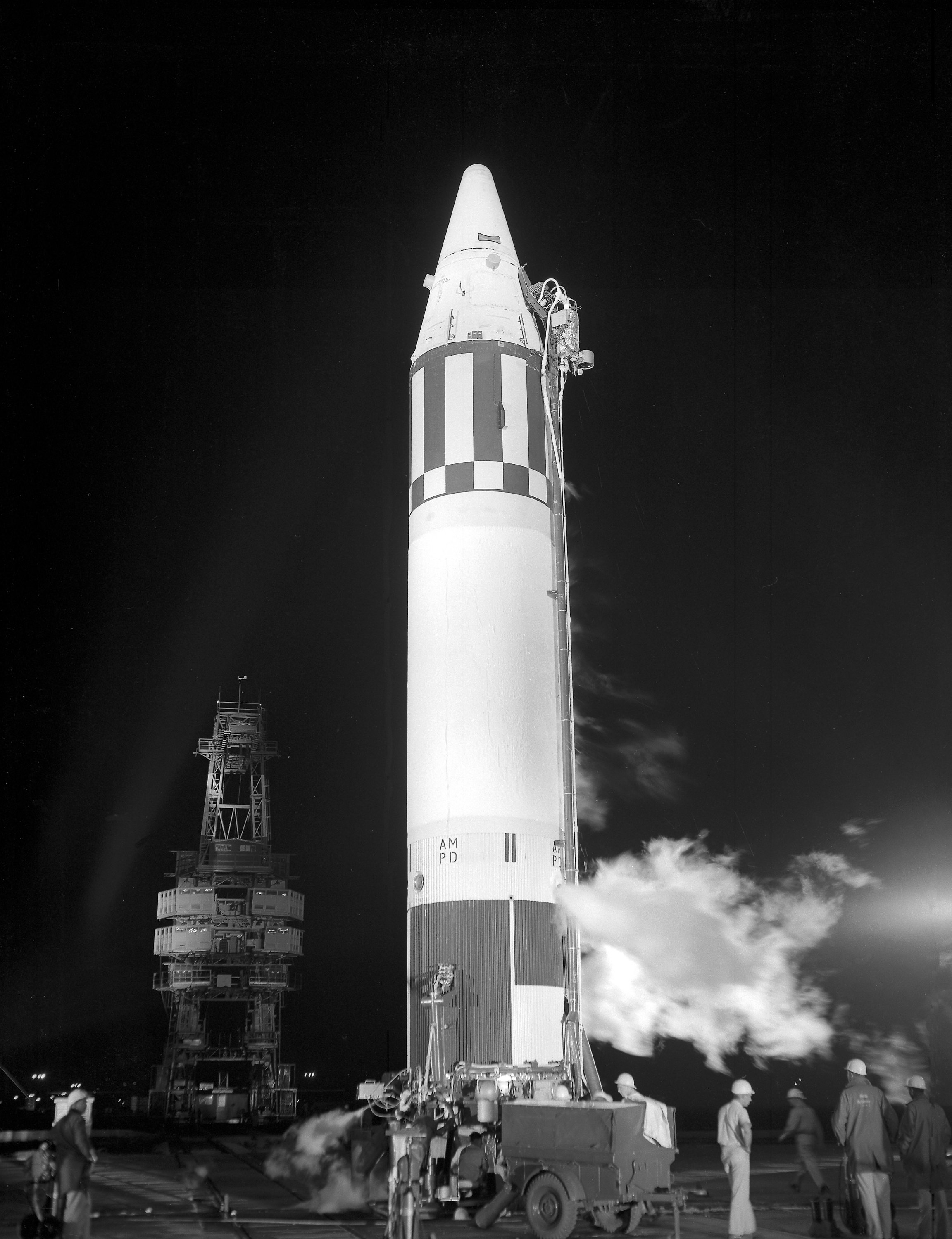 Jupiter (AM-18), suborbital primate flight with Able and Baker as its payload, being ready for launch, May 28, 1959